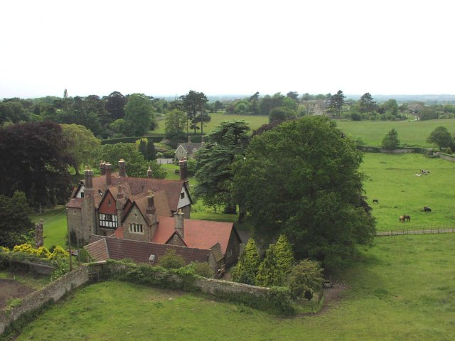 View from the top of the tower of Wickwar Church. The walls around the house are the remains of a Saxon walled settlement.